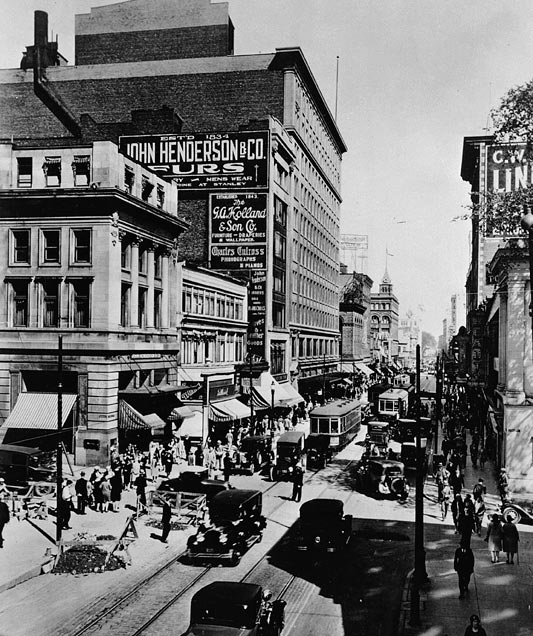 View of St. Catherine Street, looking east from Stanley Avenue, Montreal, Quebec.